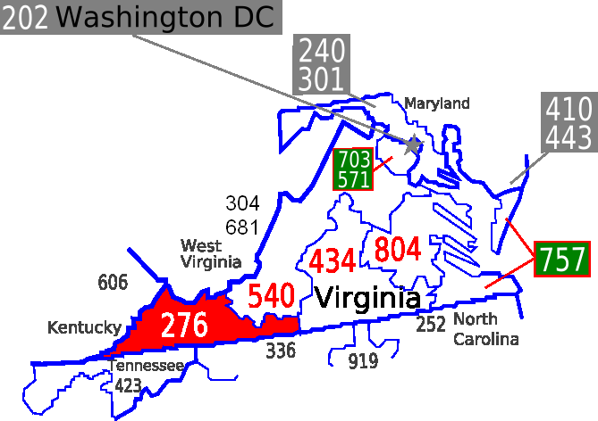 Image showing Virginia and neighboring state area codes with 276 in red.